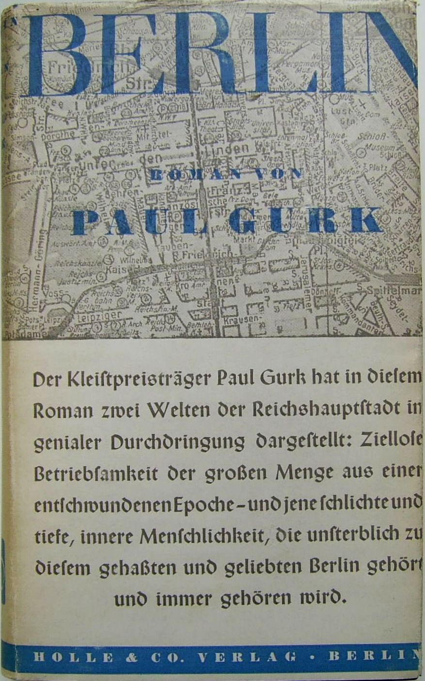 Paul Gurk - Berlin, Erstausgabe 1934